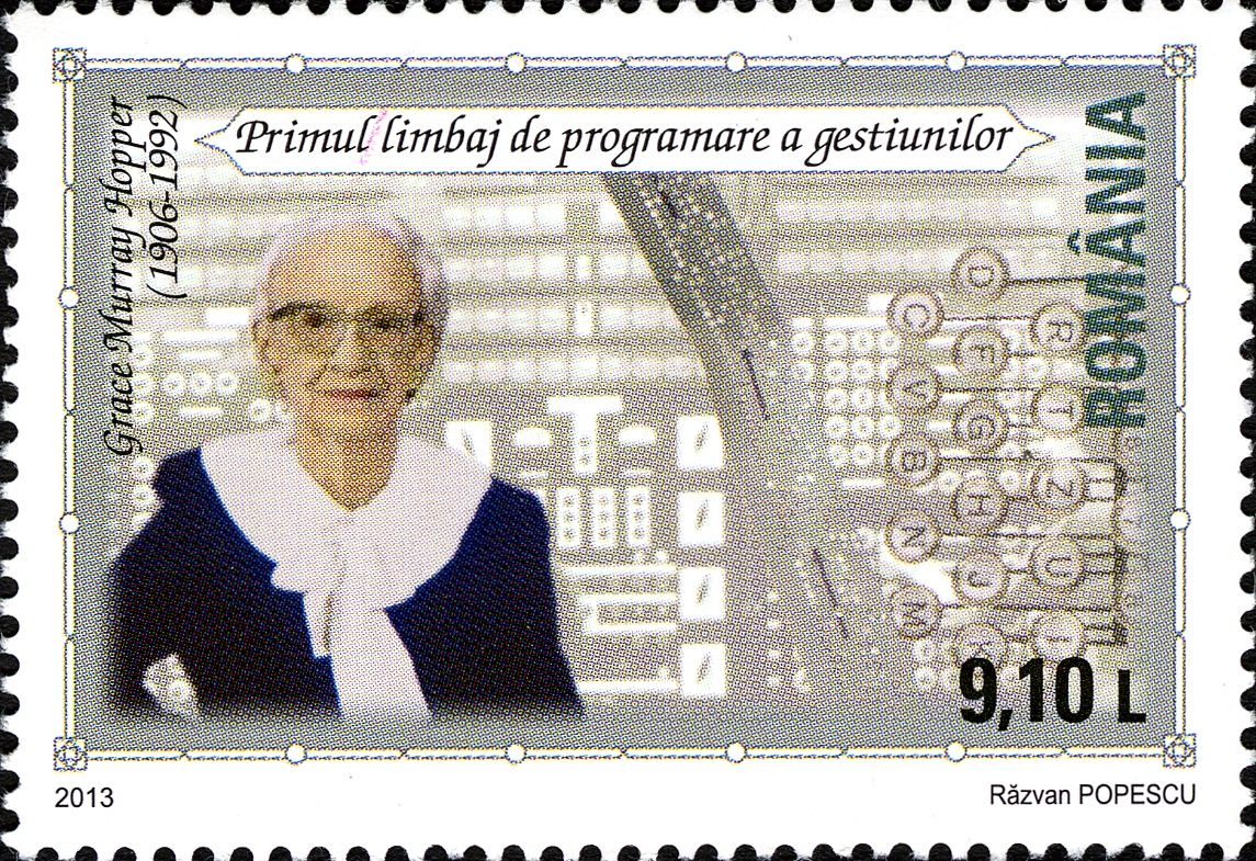 Stamps of Romania, 2013